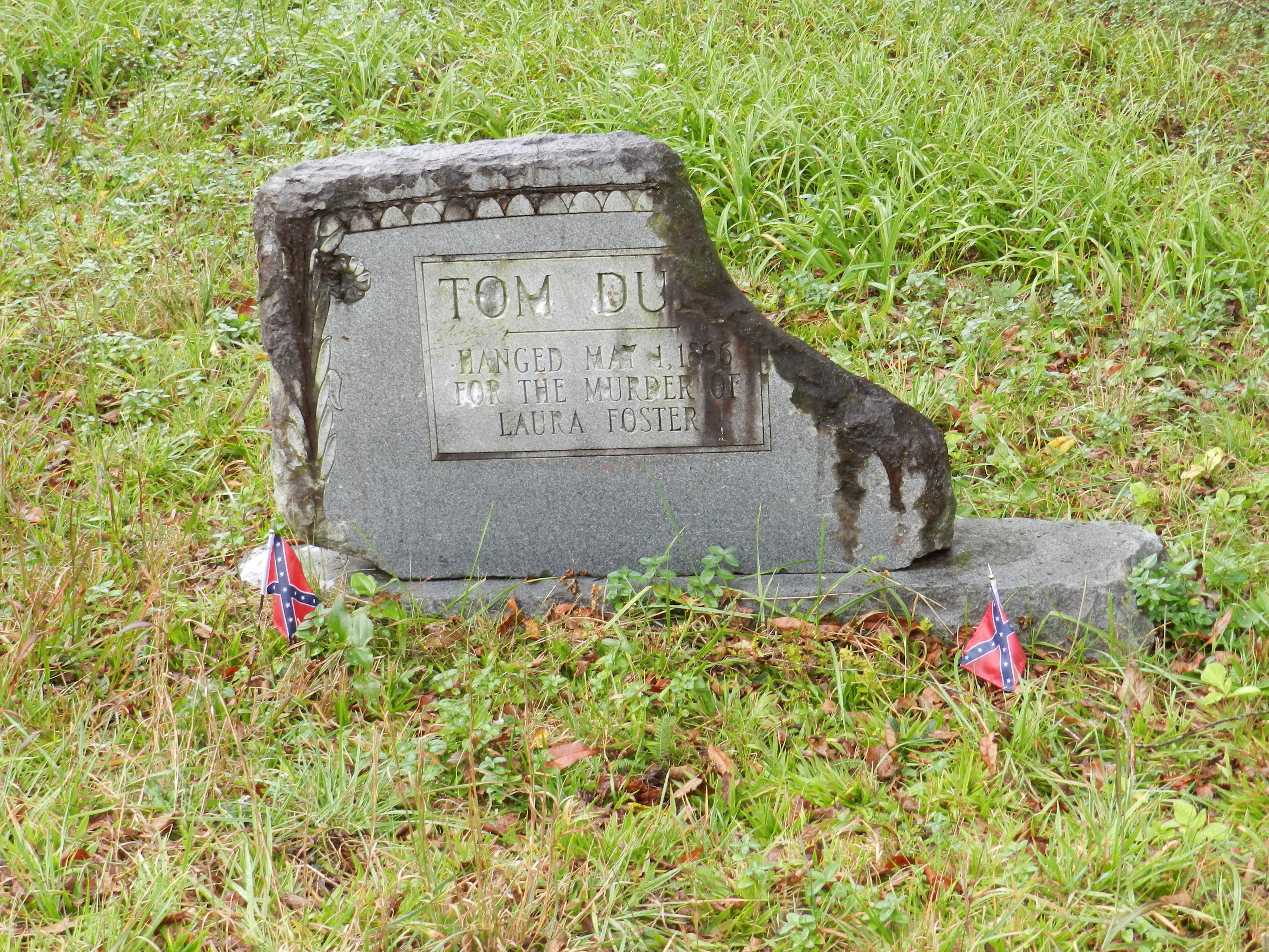 Gravesite of Tom Dooley, Made famous by the 1958 ballad of the Kingston Trio.